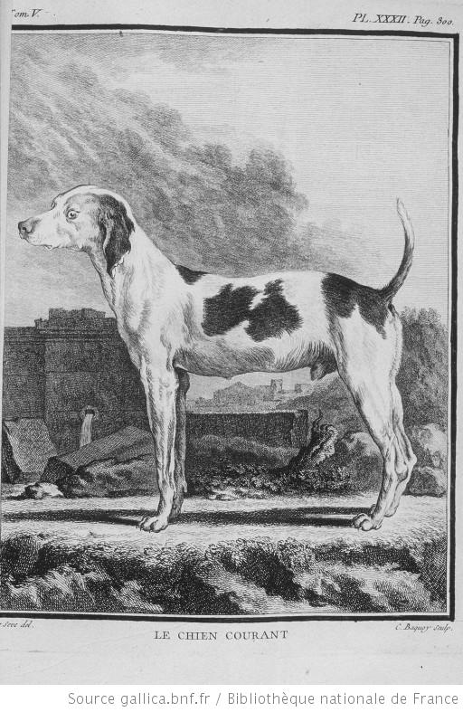 Scenthound